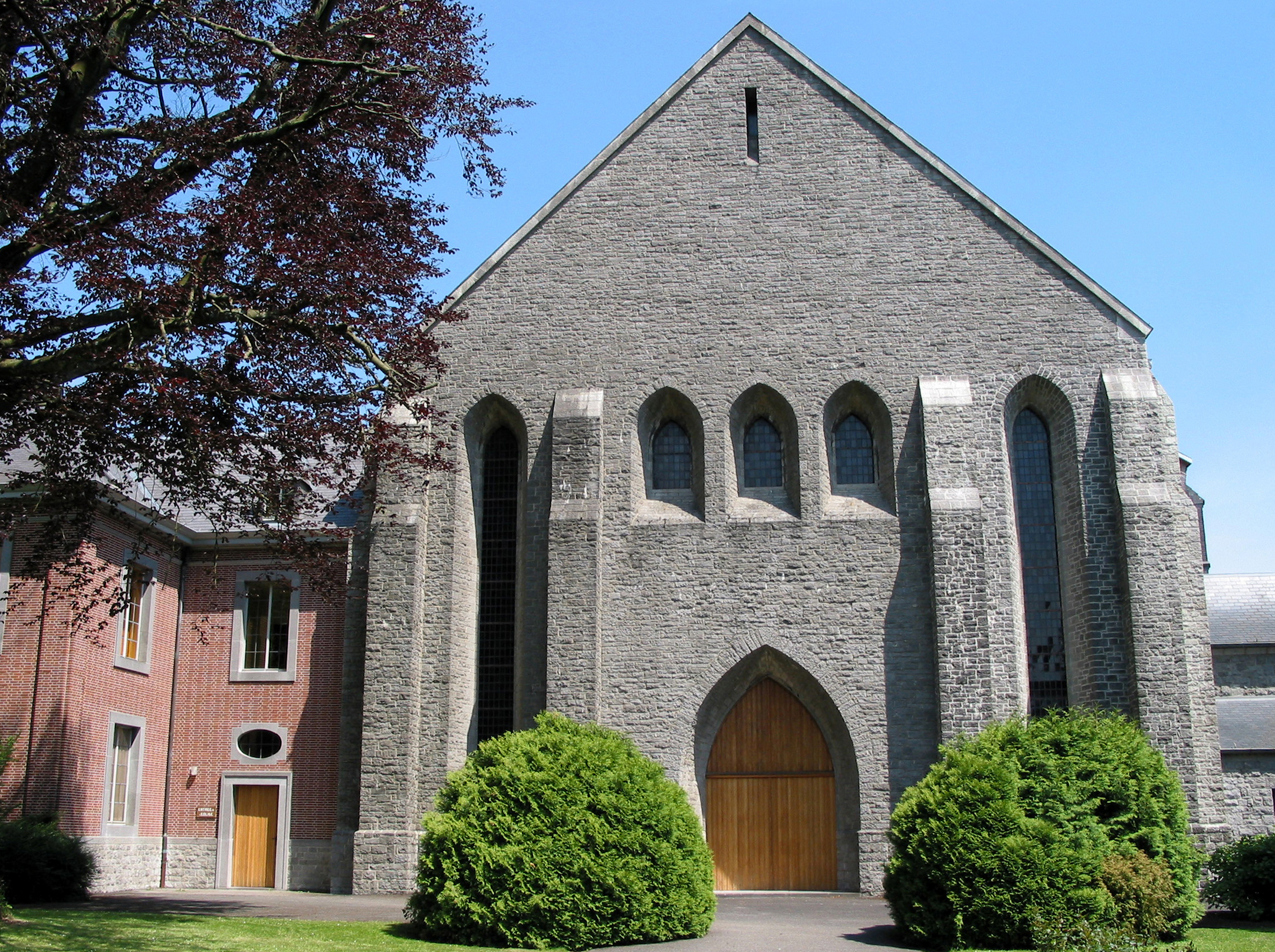 Forges (Chimay) (Belgium), entry of the N-D de Scourmont abbey church.